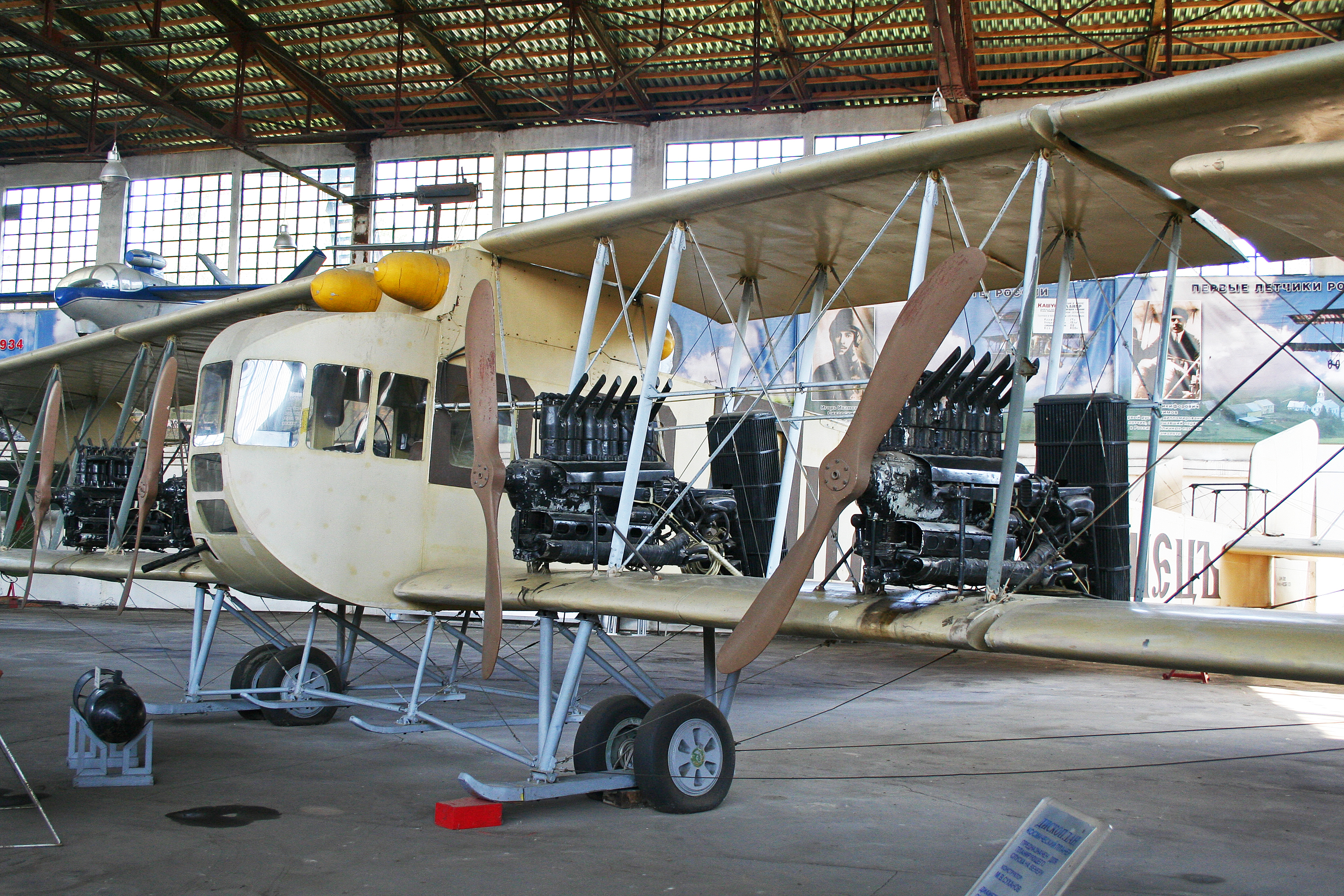 This is a replica of the worlds first four engined bomber. It was originally designed as a luxury airliner and the series was named 'Ilya Muromets' after a hero from Russian Mythology. 73 aircraft of this type saw military service between 1913 and 1918. It was also the first type to carry out bomber group raid, night bombing, and photo bomb damage assessment. The main production bomber was the S-23. This full scale replica is on display in the original display hangar of the Russian Air Force Museum. Monino, Russia. 13-8-2012